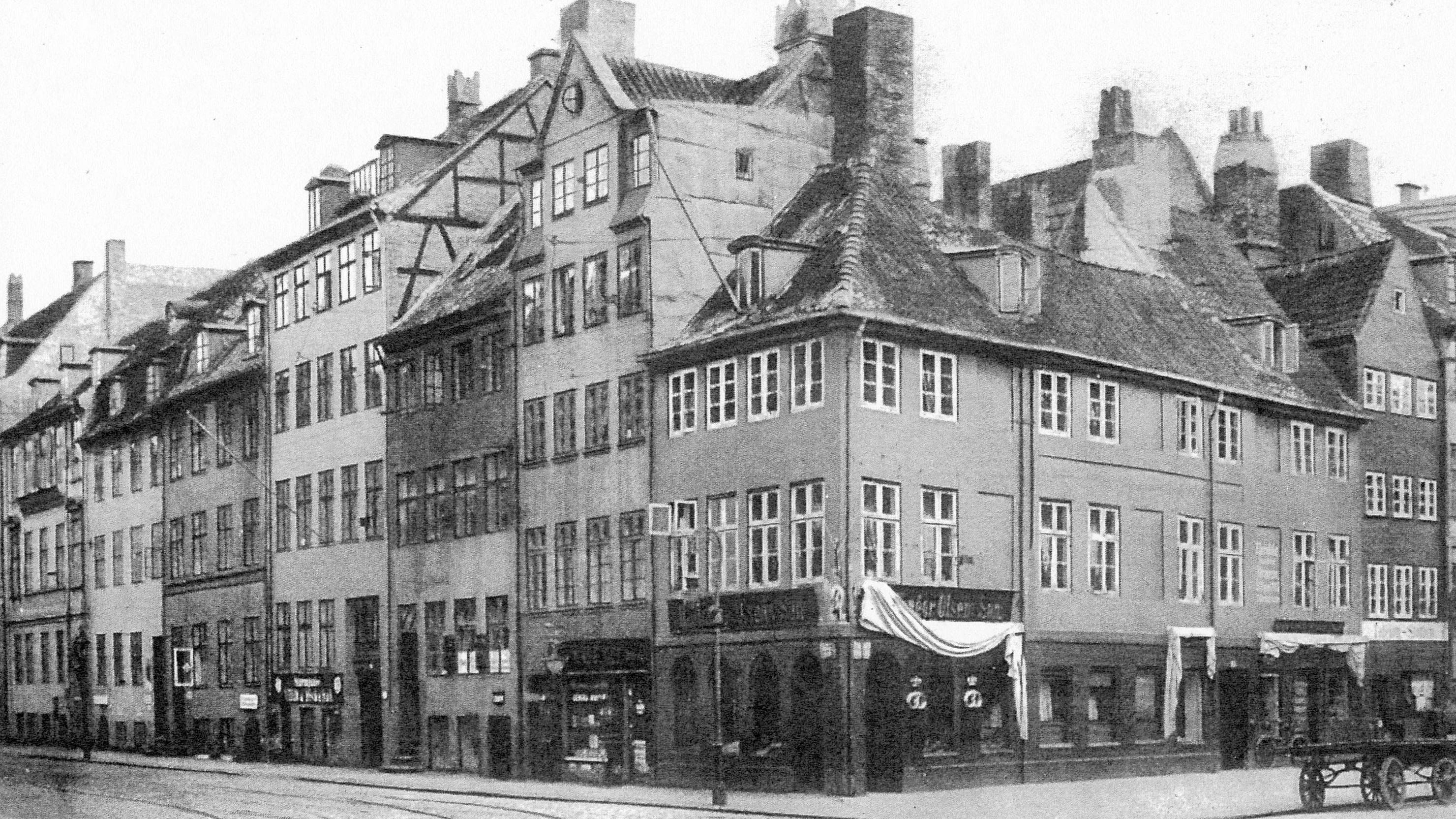 The South(East) side of Stormgade as seen from Vester Voldgade in Copenhagen, Denmark. The entire house row was demolished in 1931 to make way for an expansion of the National Museum.